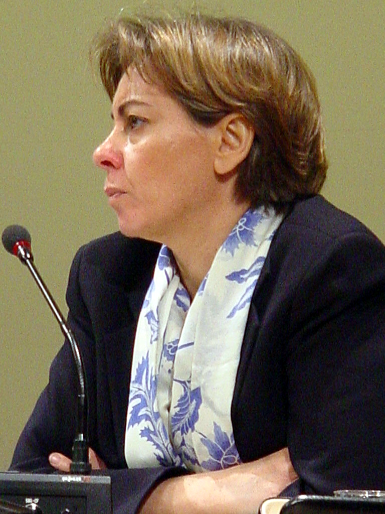 Shaha Riza at a World Bank press conference on 11 April 2003, in her capacity as World Bank Middle East and North Africa Region (MENA) Senior Gender Specialist.